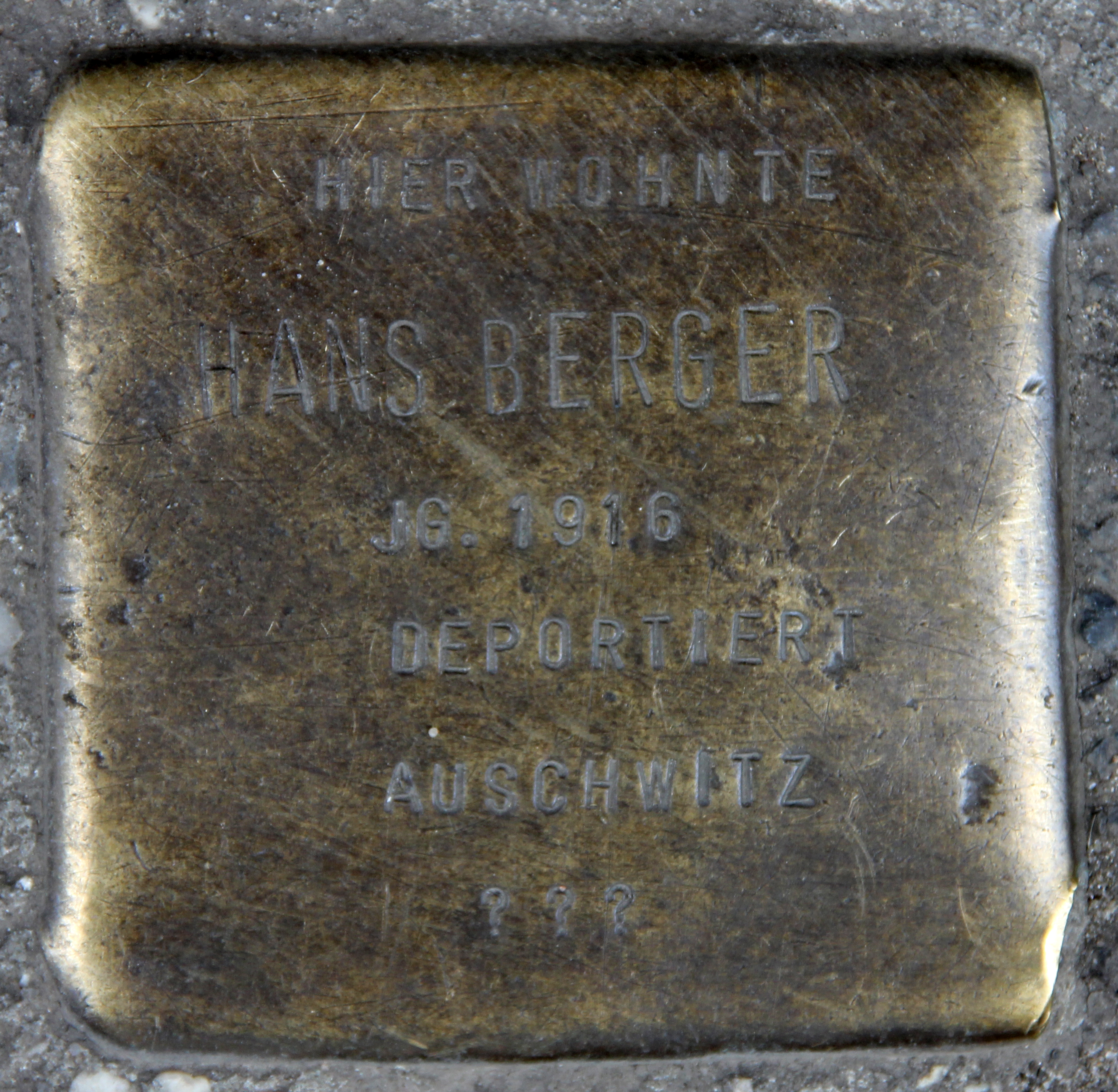 "Stolperstein" (stumbling block), Hans Berger, Mariannenstraße 34, Berlin-Kreuzberg, Germany